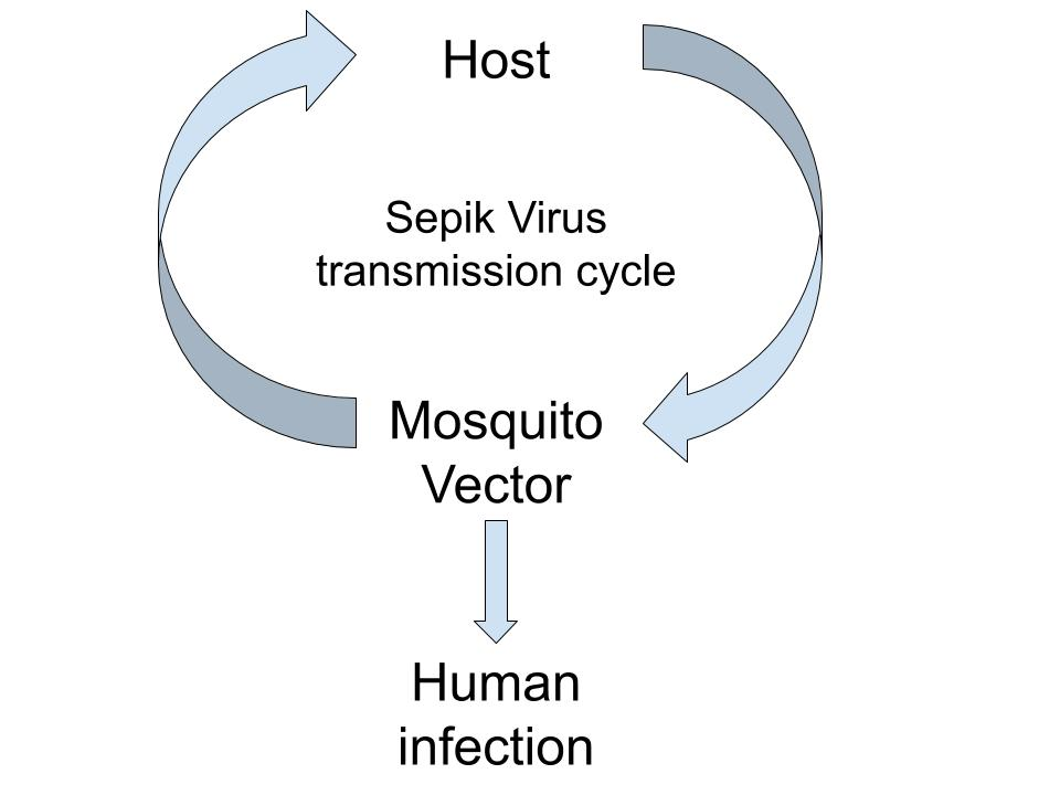 This diagram shows how arthropod-borne viruses are transmitted from the host through the vector to the infected human.